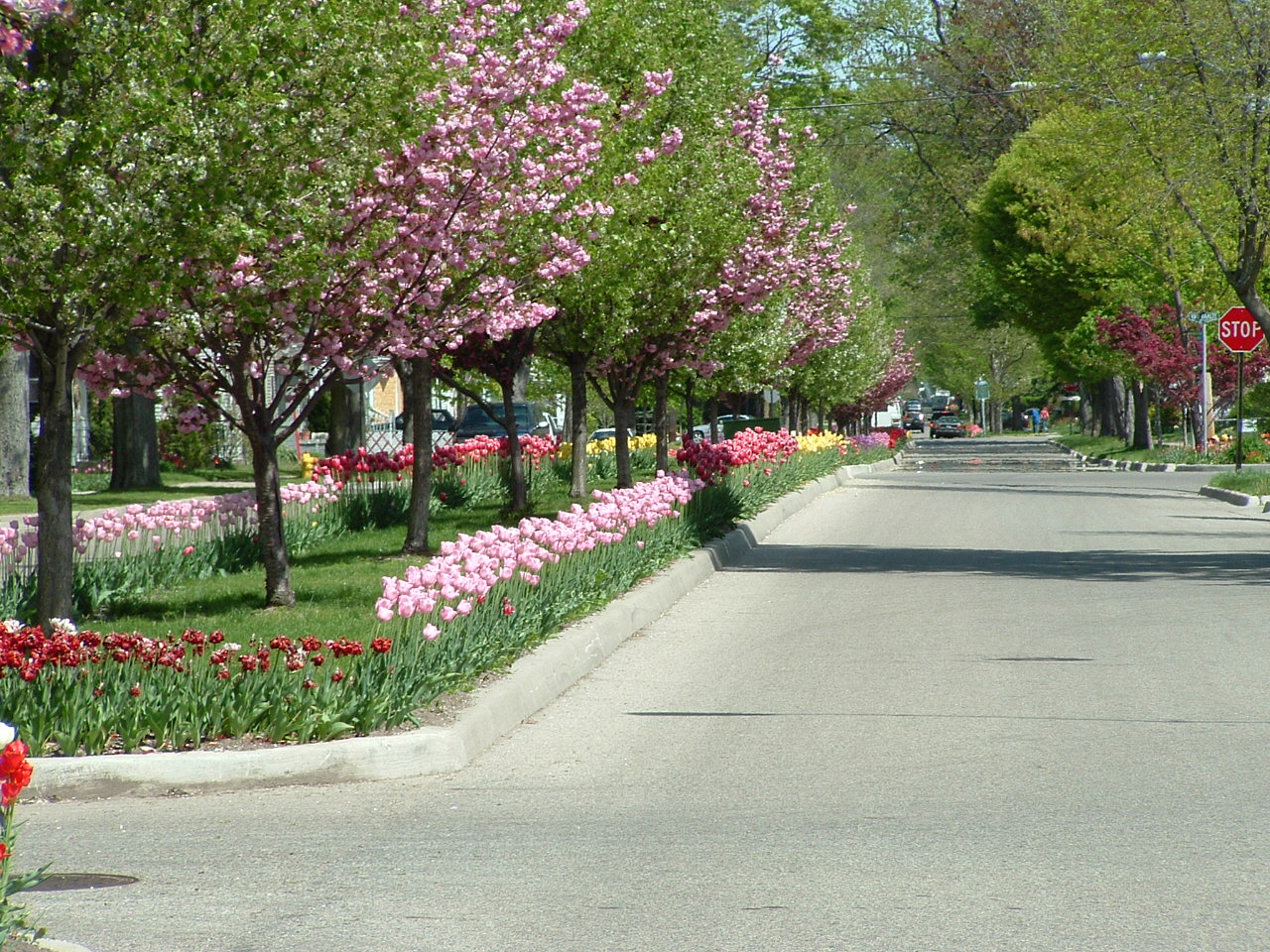 Streets lined with tulips, known as "tulip lanes", are popular drive-by attractions for people visiting Holland during Tulip Time. Image taken 04 May 2006, looking east on W 12th Street.